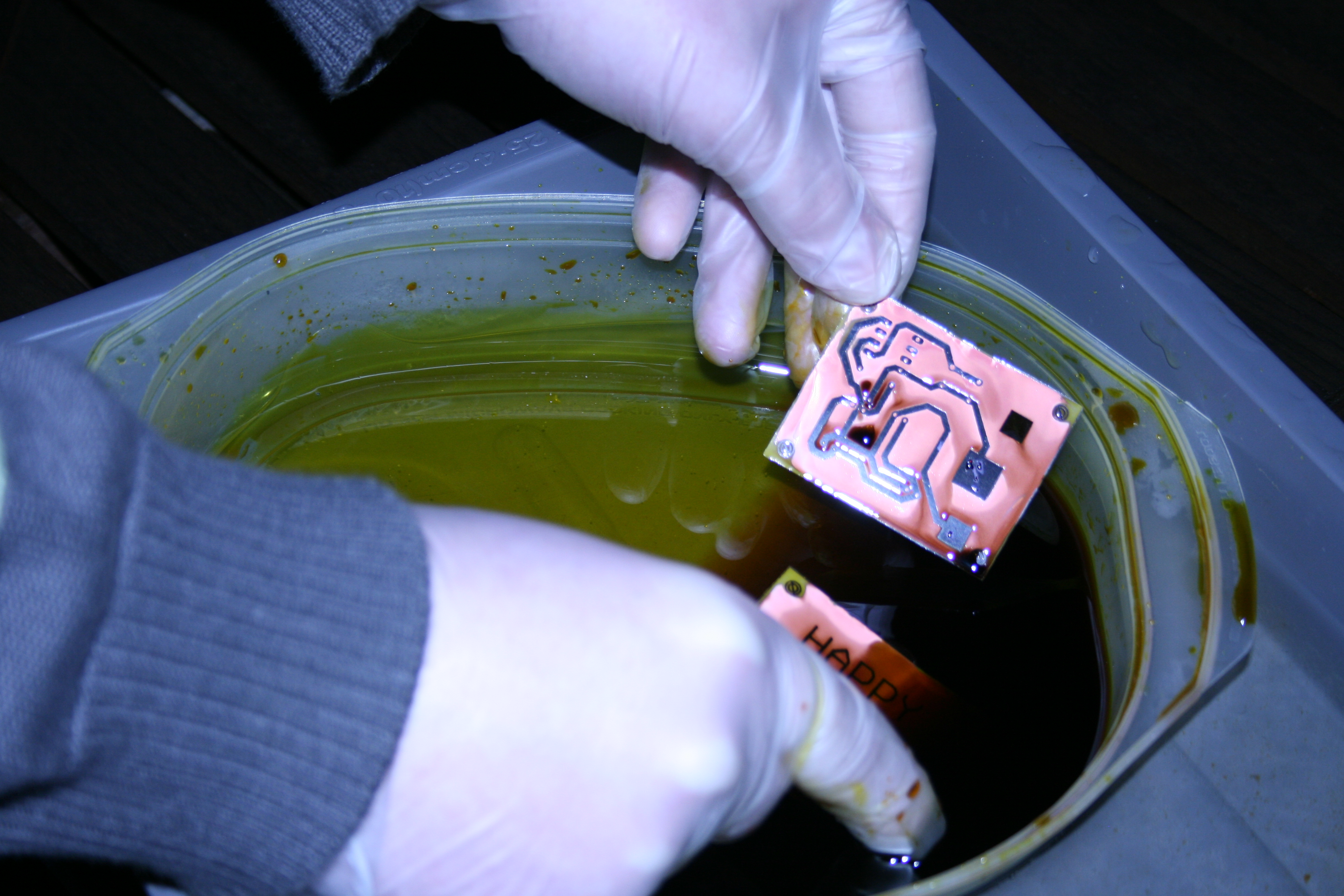 Printed circuit board etched in Ferric Chloride